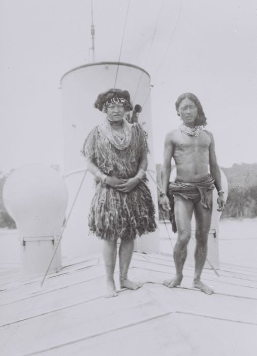 A Mentawai man and woman from the village Sioban on the island Sipora on board the ship Bellatrise